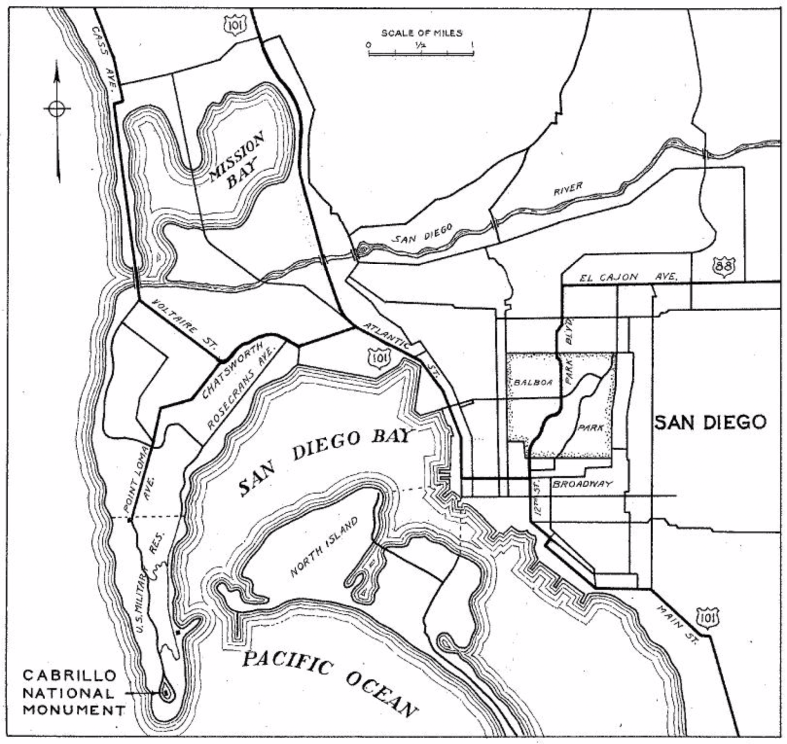 Location Map, Point Loma, near San Diego, California